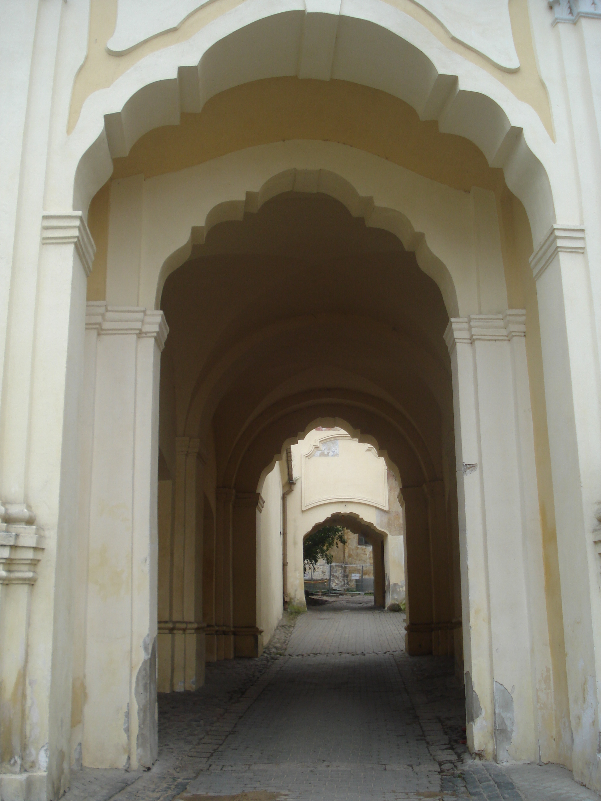 Baroque gate of the Basilian (Uniate) monastery of the Holy Trinity in Vilnius (Brama klasztoru Bazylianów w Wilnie) more detailed